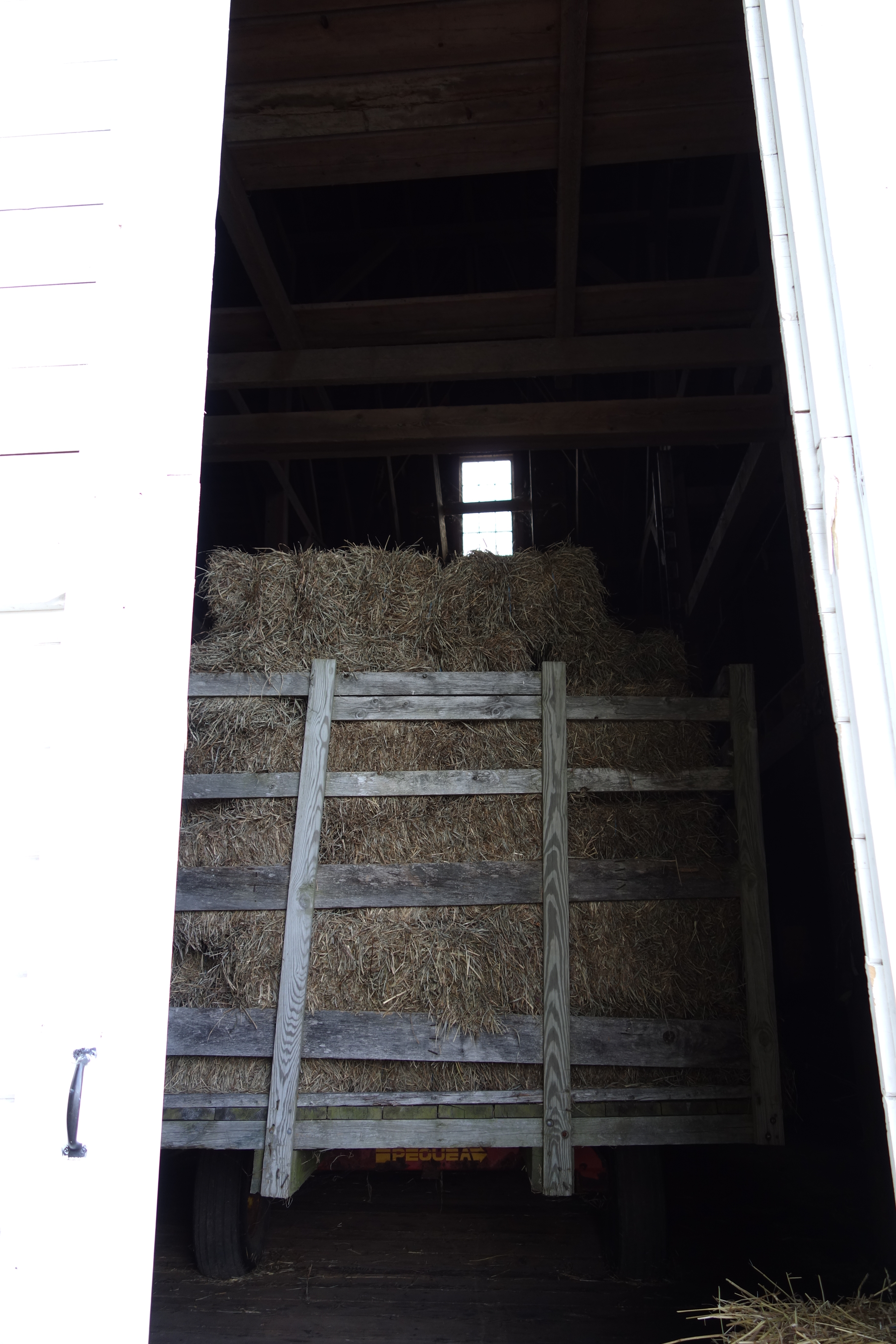 Suffolk County Almshouse Barn, West of Yaphank Avenue Yaphank